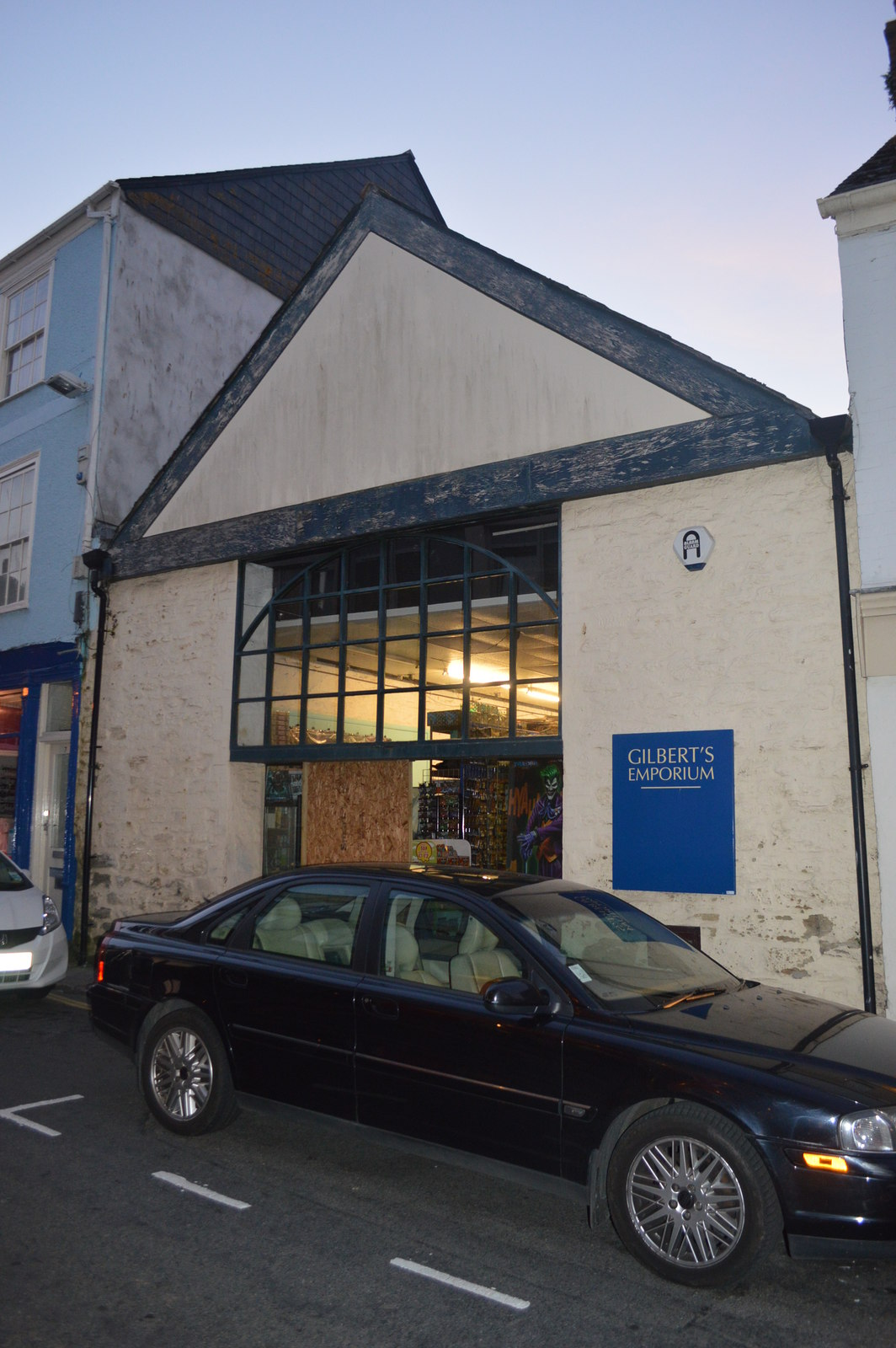 Gilbert's Emporium, Truro